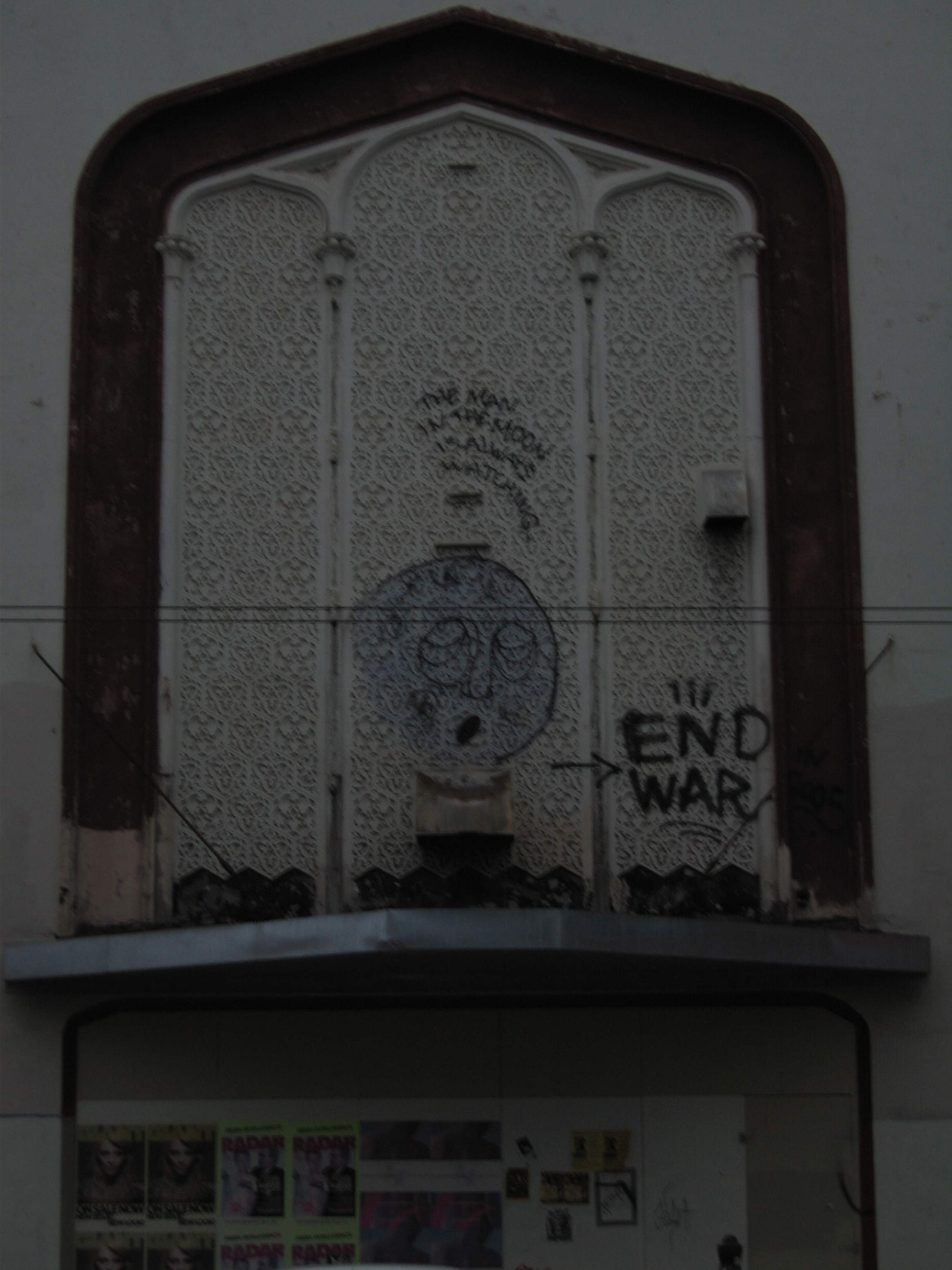 Harding Theater, San Francisco The man in the moon is always watchingEnd War